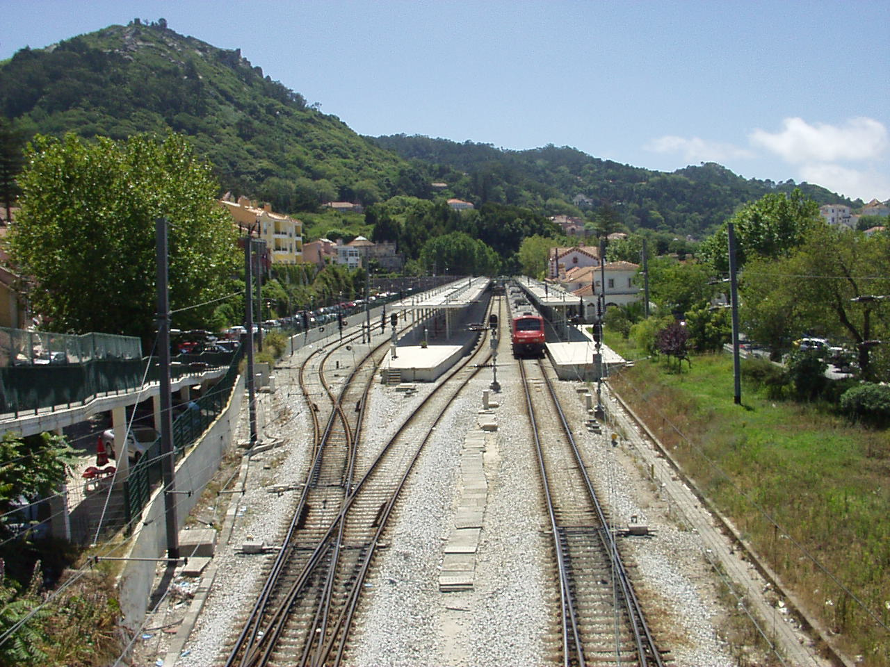 Sintra railway station, Portugal